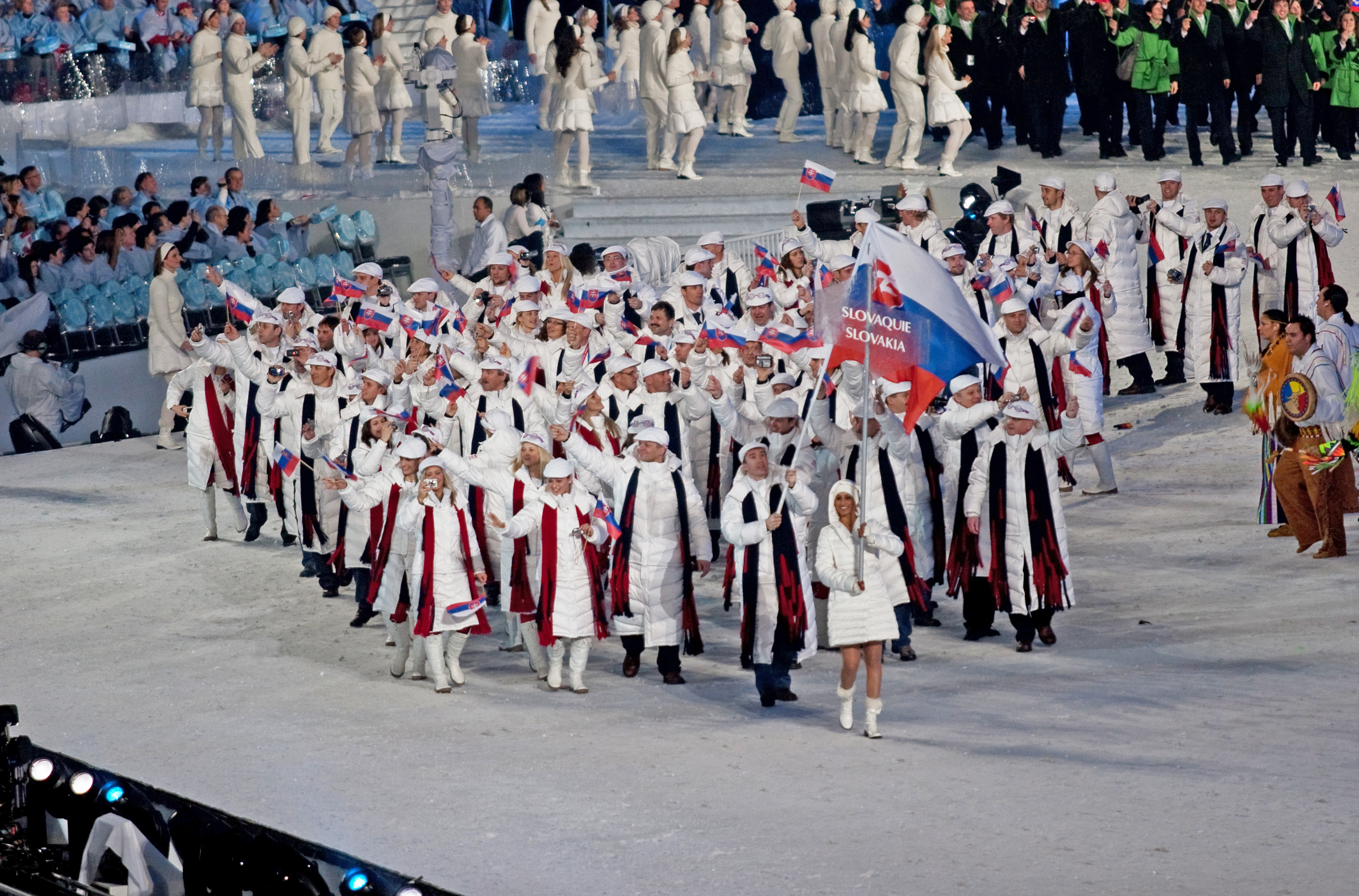 The athletes from Slovakia entering the stadium at the opening ceremonies of the 2010 Winter Olympics.